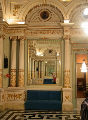 Saló dels Miralls in Gran Teatre del Liceu (Barcelona, Catalonia).